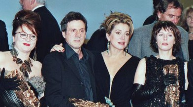 Josiane Balasko, Daniel Auteuil, Catherine Deneuve and Karin Viard, French actors